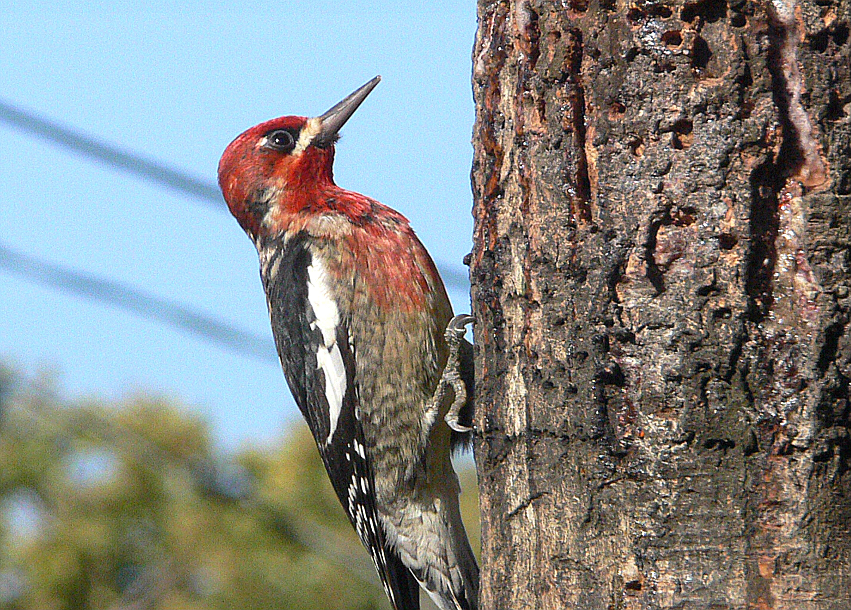 Red-Breasted Sapsucker (Sphyrapicus ruber)